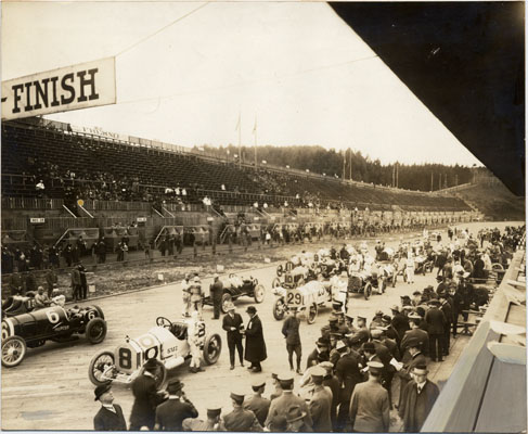 The grid for the 1915 American Grand Prize race at the Panama-Pacific International Exposition in San Francisco. #8 - Earl Cooper, Stutz Motor Company, #6 - Glover Ruckstell, Mercer